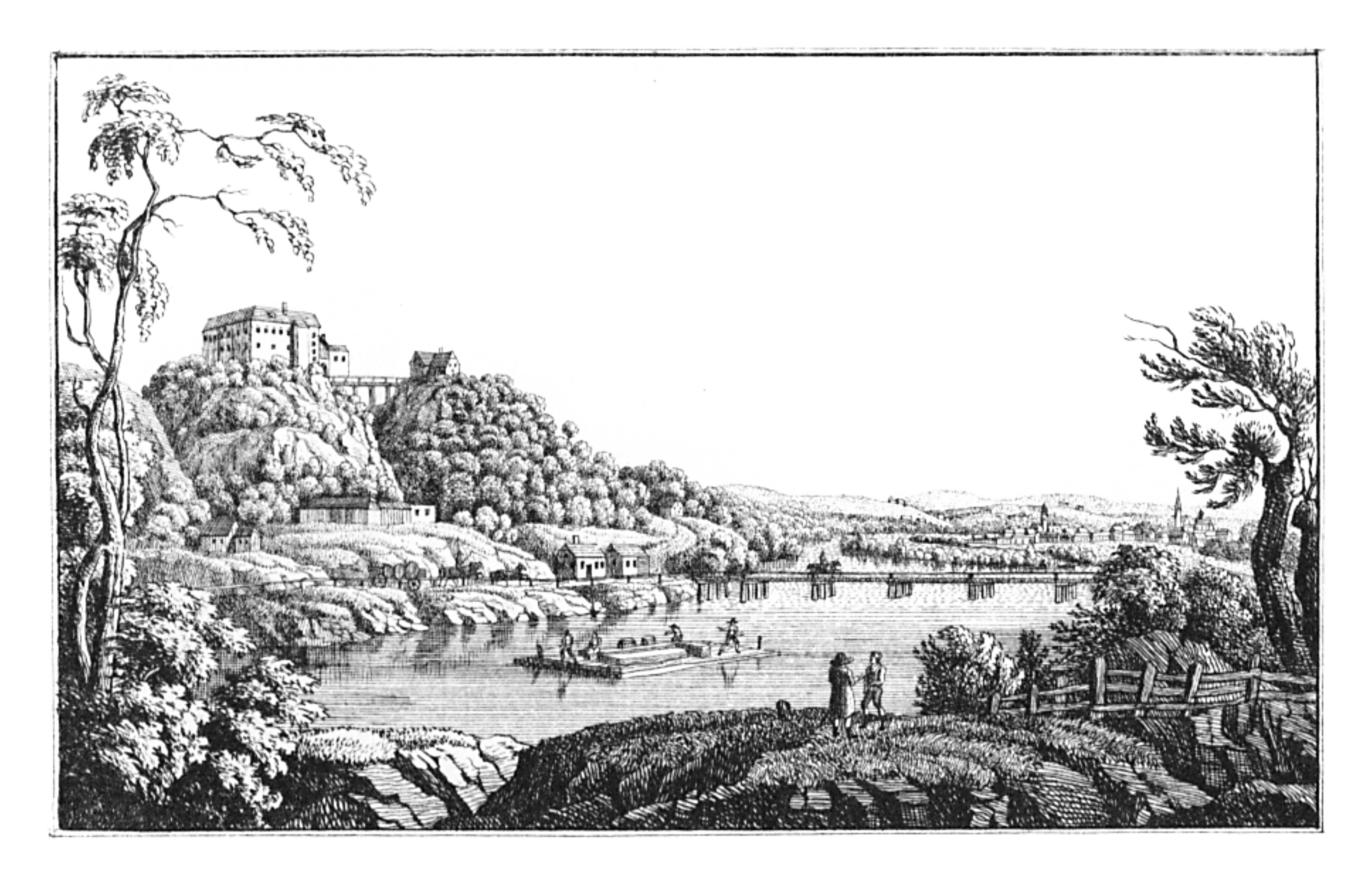 J. F. Kaiser - lithographirte Ansichten der Steyermärkischen Städte, Märkte und Schlösser, Graz 1824-1833 Joseph Franz Kaiser (1786–1859) Alternative names J. F. KaiserDescriptionAustrian printer and editorDate of birth/death 11 March 1786 19 September 1859Location of birth/death Graz (Styria) GrazAuthority control : Q1499963 VIAF: 30629353 ISNI: 0000 0000 3083 0153 LCCN: n87141671 GND: 129880159 NLP: A24960305 WorldCat creator QS:P170,Q1499963 . Scanprojekt Community Projektbudget 2012 This scan or this PDF-file was created within the GLAM-project Bookscanning, supported by Wikimedia Germany and Wikimedia Austria as a part of the community-project to capture books, documents and pictures which are not eligible to copyright or for which the copyright has expired. This document describes or depicts an object which is located in Austria today. Send requests for uncompressed scans to Hubertl. This work is in the public domain in its country of origin and other countries and areas where the copyright term is the author's life plus 100 years or less. You must also include a United States public domain tag to indicate why this work is in the public domain in the United States. This file has been identified as being free of known restrictions under copyright law, including all related and neighboring rights.